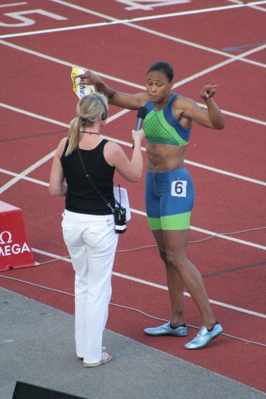 Marion Jones london Grand prix 2006 athletics track and field athlétisme